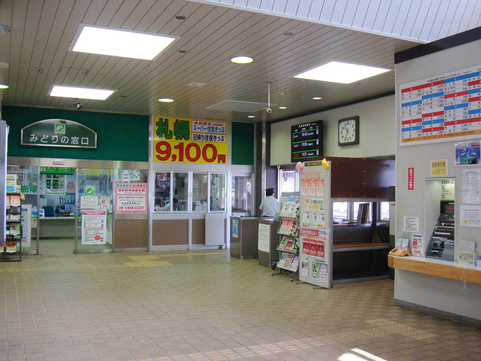 Kitami Station